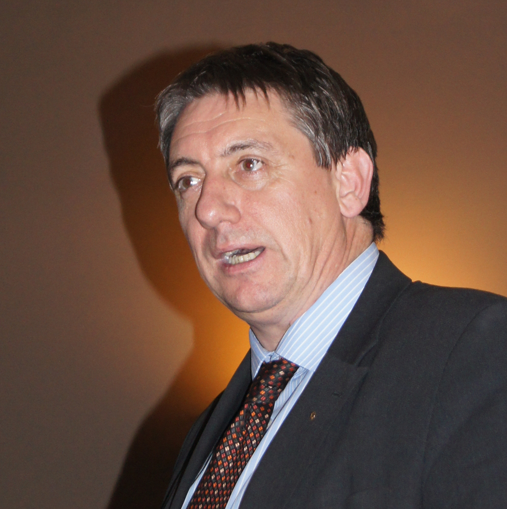 Belgian politician Jan Jambon